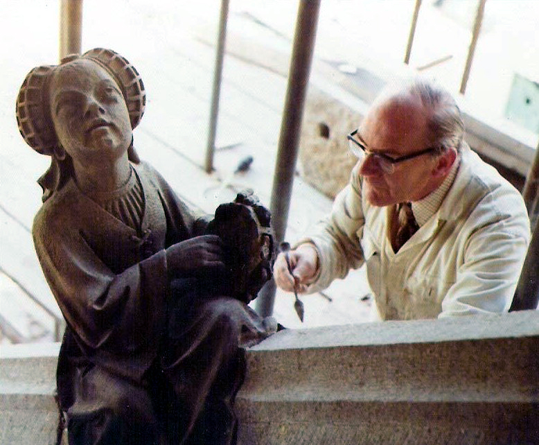 Restauration of the Cathedral